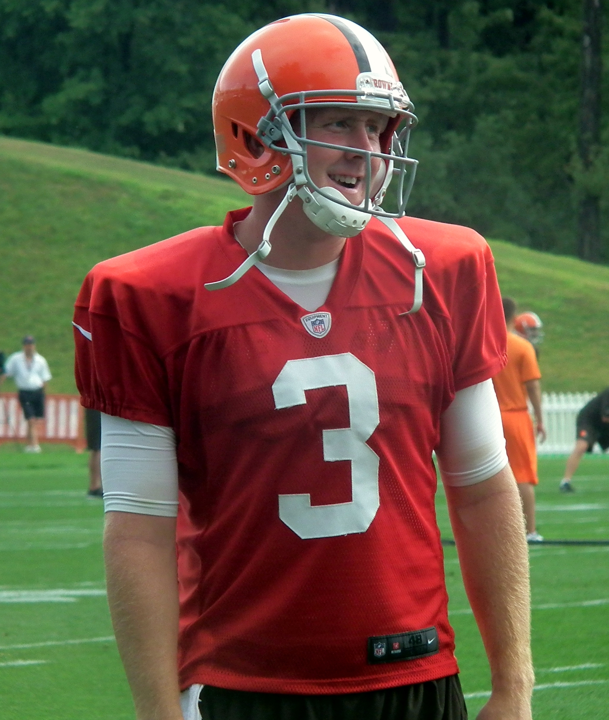 Quarterback Brandon Weeden at the Cleveland Browns' training camp in July 2012.